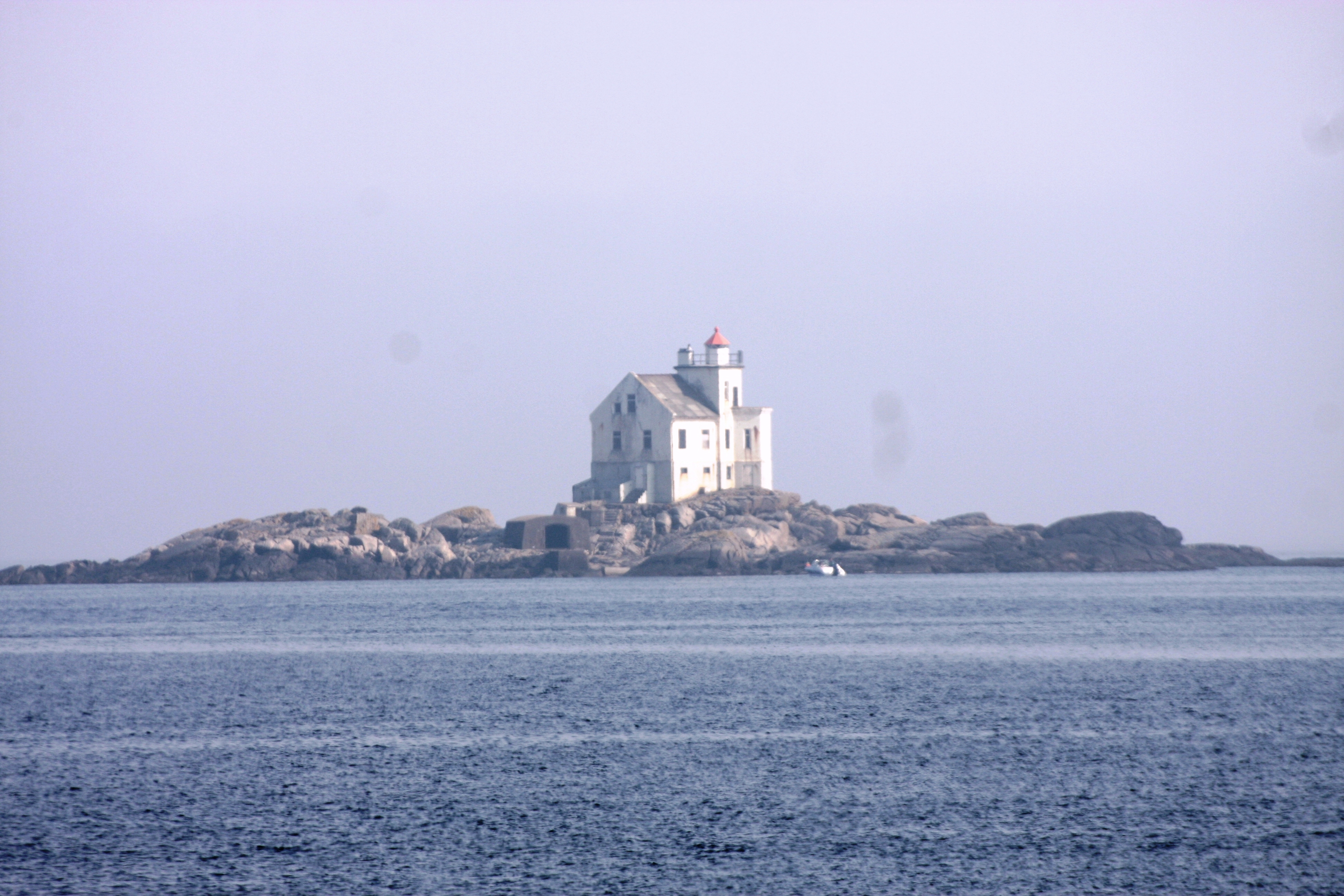 Katland lighthouse, Farsund municipality, at the start of the Lyngdals Fjord, county of Vest-Agder, Norway.